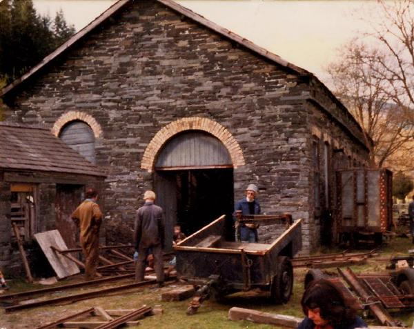 Maespoeth Junction locomotive shed on the Corris Railway in the early 1980's with much restoration activity underway. On the left in brown overalls is Vince Roberts, on the right in blue overalls is Mark Hill.